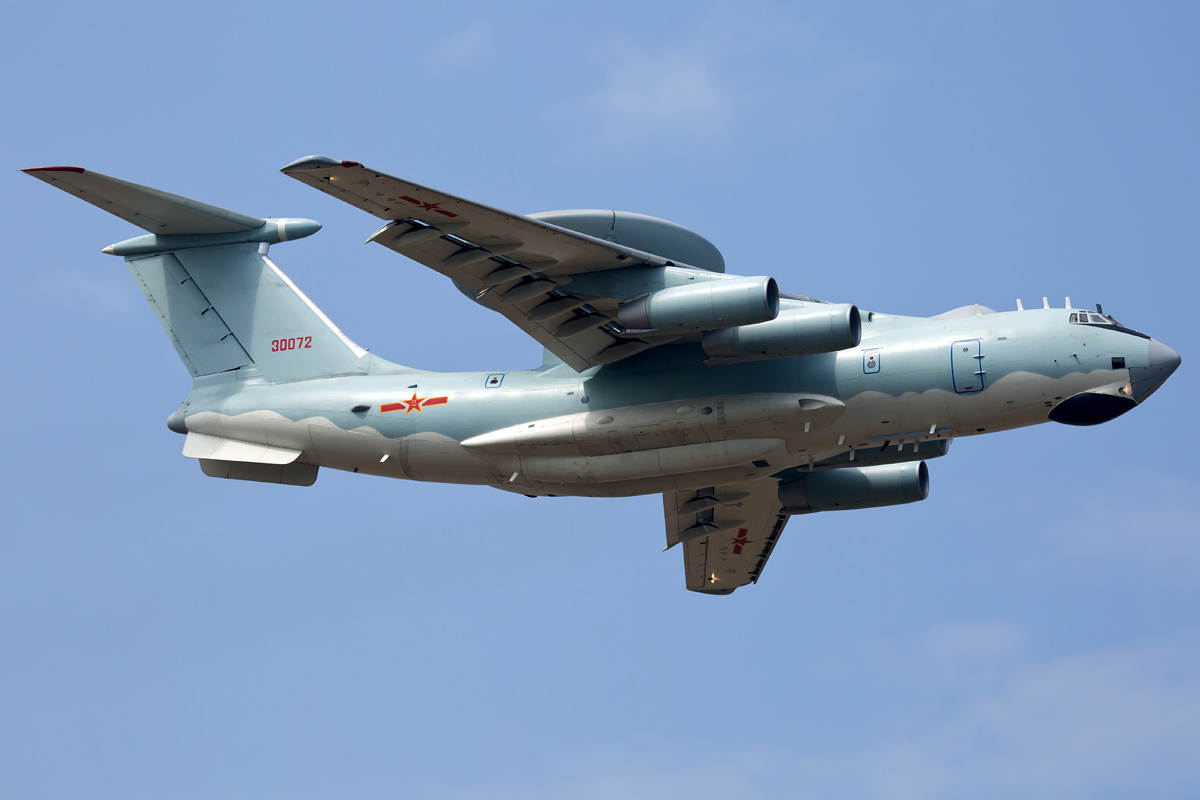 KJ2000 at 2014 Zhuhai Air Show